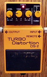 Photo taken by Tom S. Note the sweet spot it's set at.